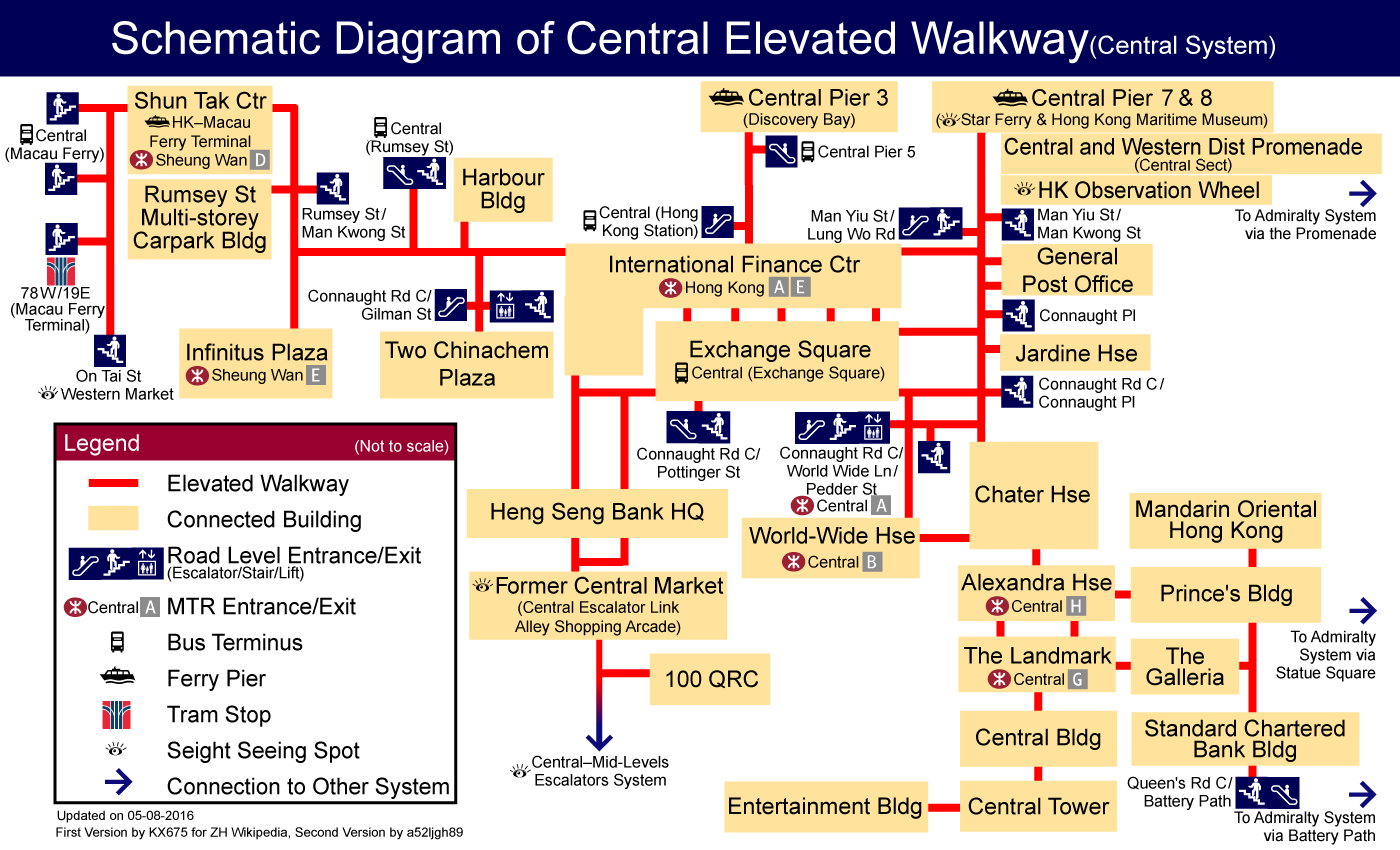 Schematic Diagram of Central Elevated Walkway (Central System)